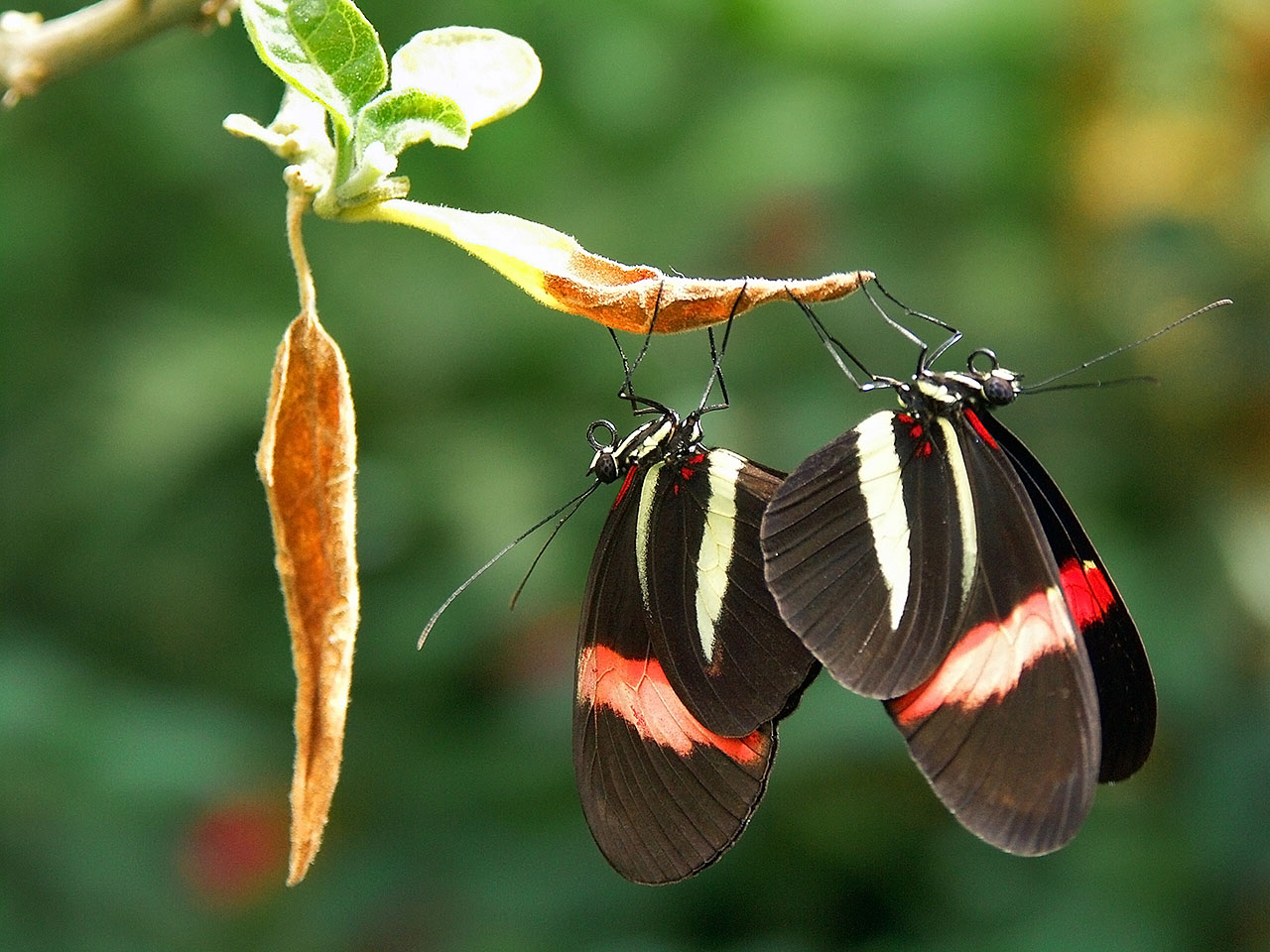 A pairing of two butterflies.